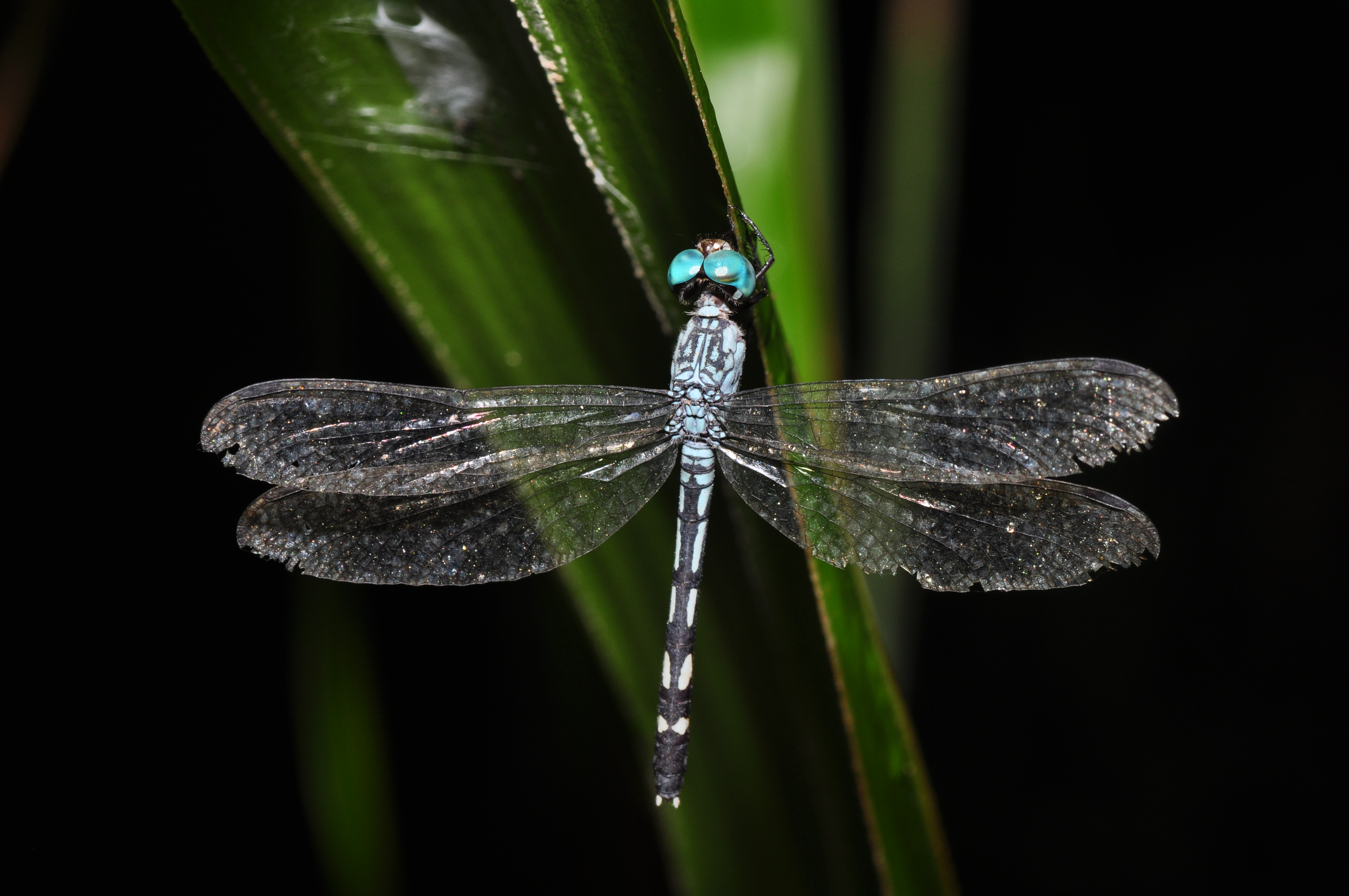 Thanks to Damian Keith for ID